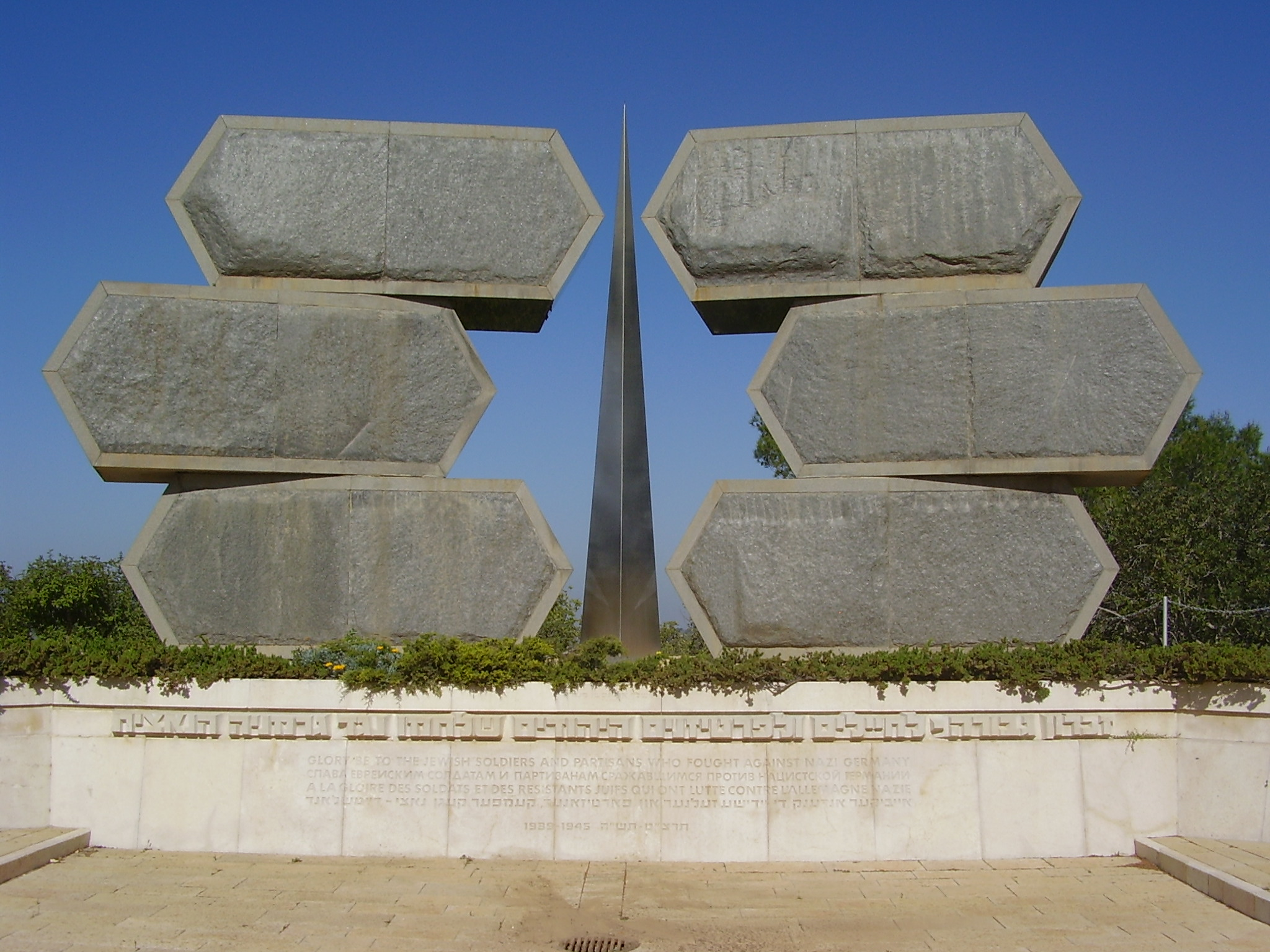 Jewish partisans memorial in Yad Vashem